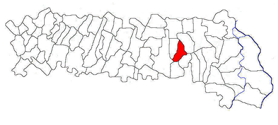 Limits of Bucu commune